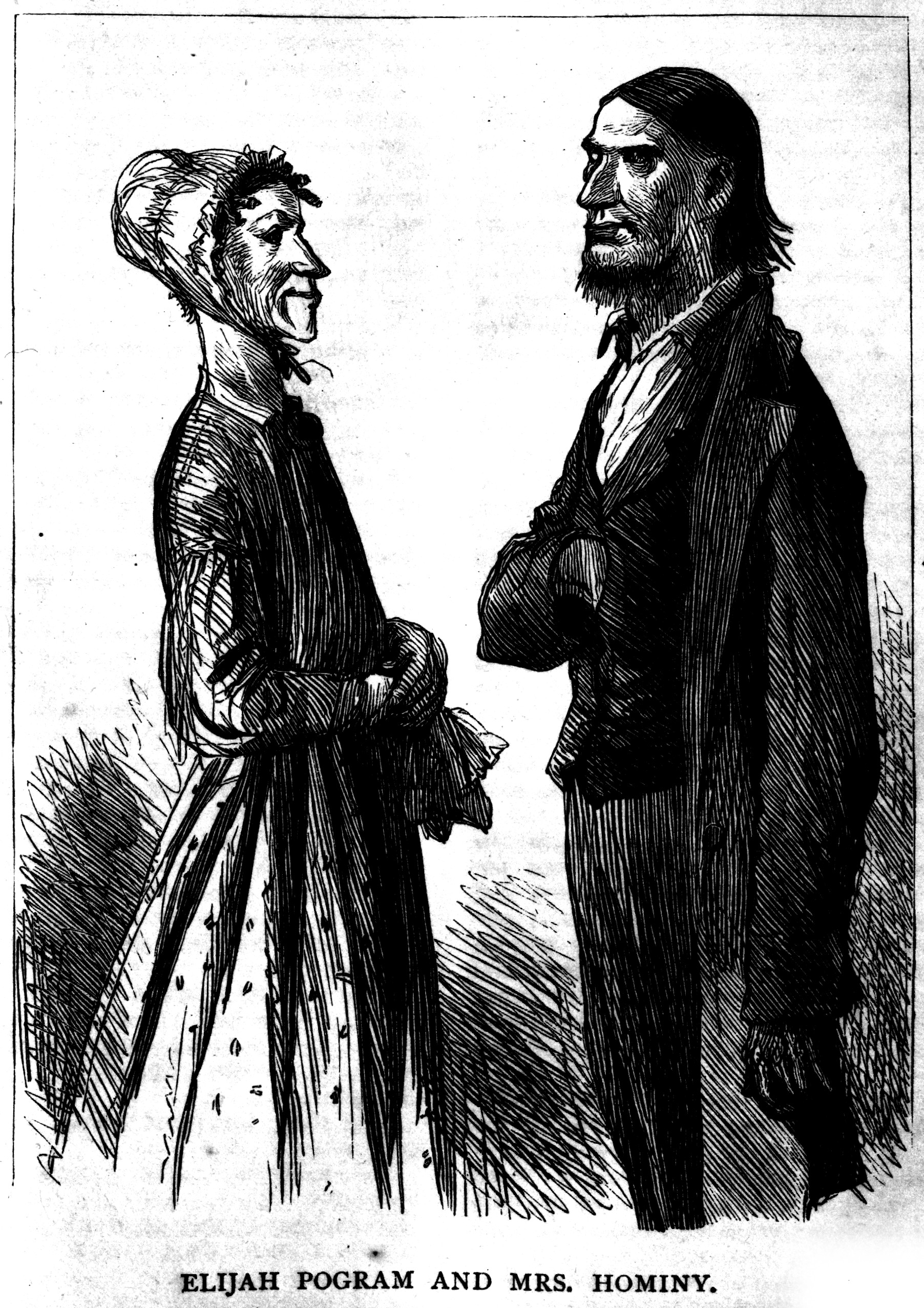 Illustration from 1867 U.S. edition of Martin Chuzzlewit. Page 312. "Elijah Pogram and Mrs. Hominy"